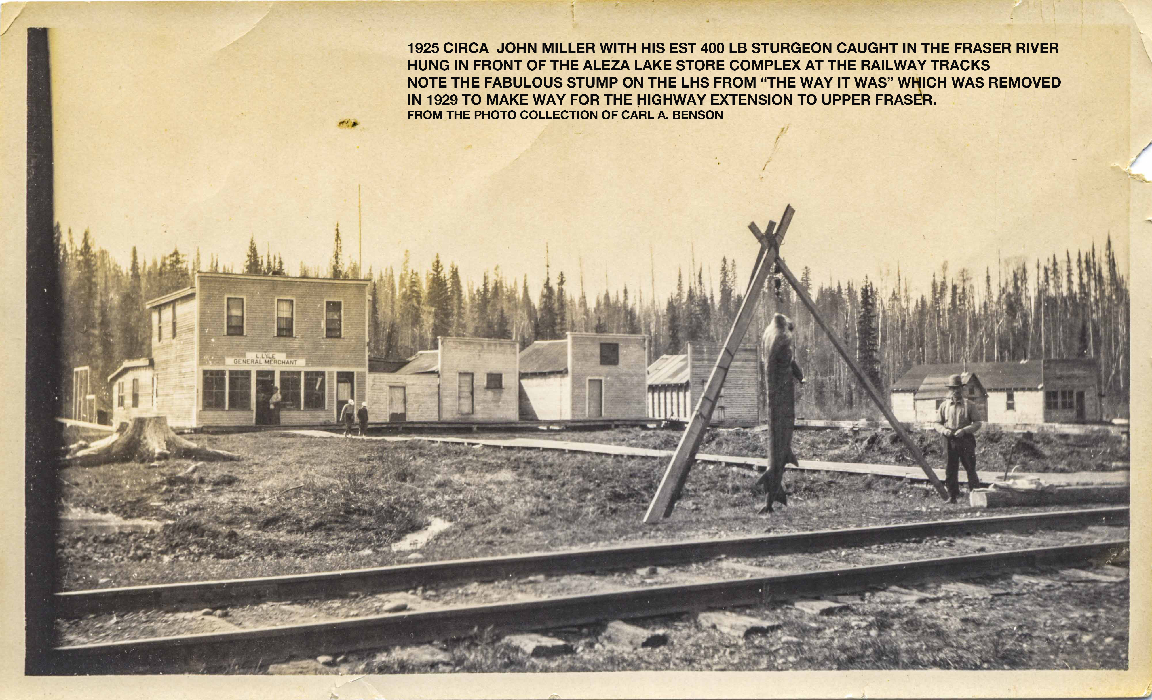 Aleza Lake store, 400lb sturgeon, other buildings